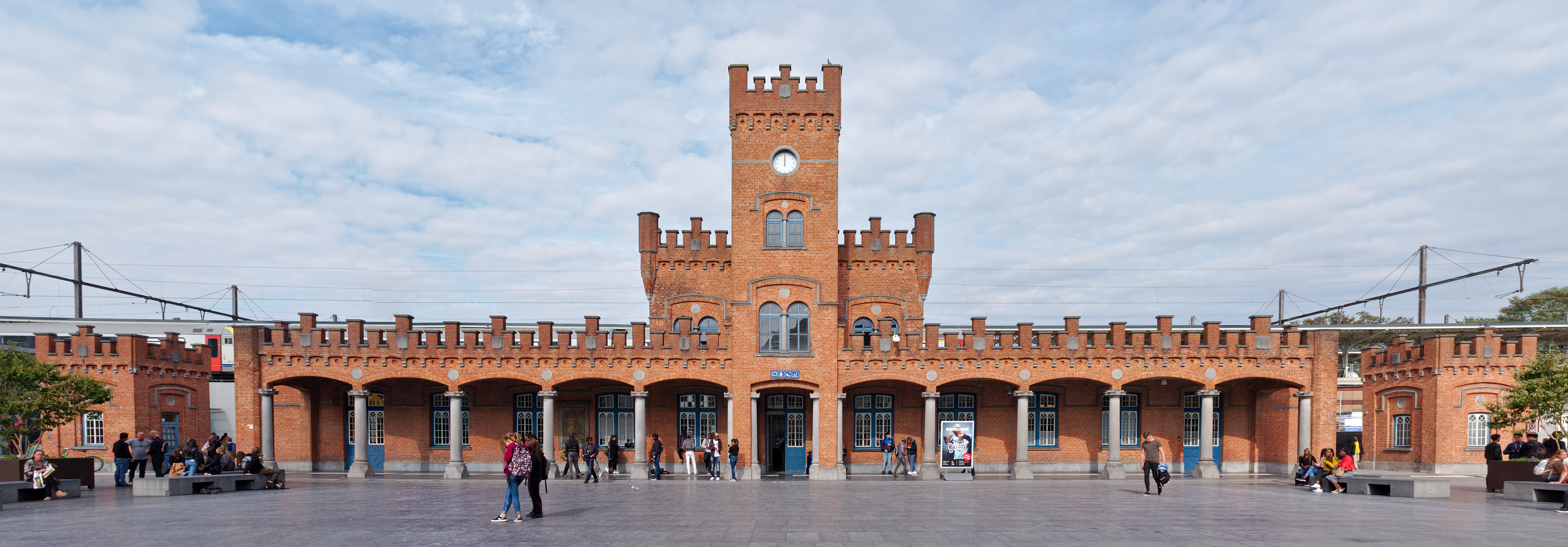 Aalst train station This photo of immovable heritage has been taken in the Flemish Region